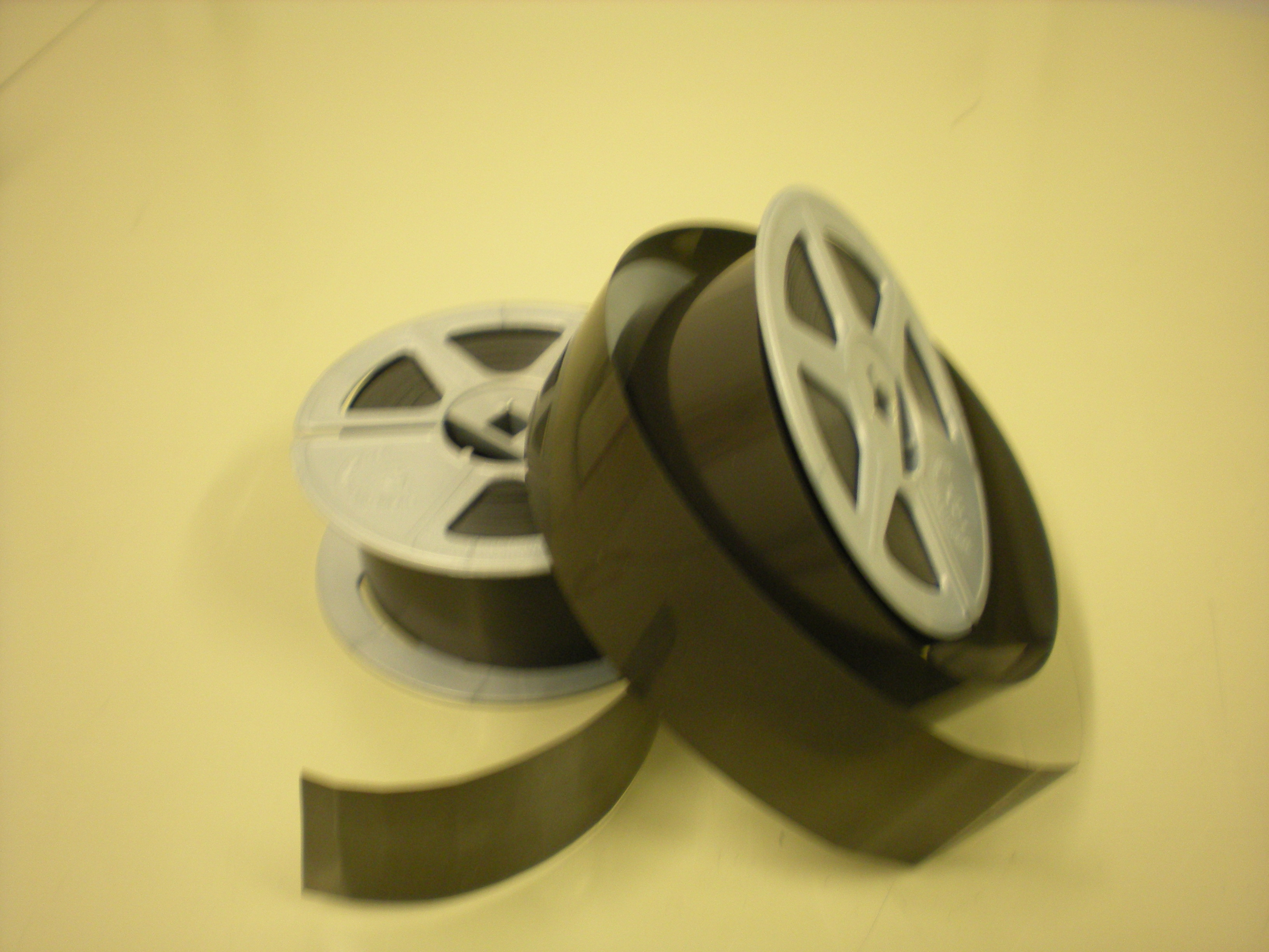 Magnetic tape